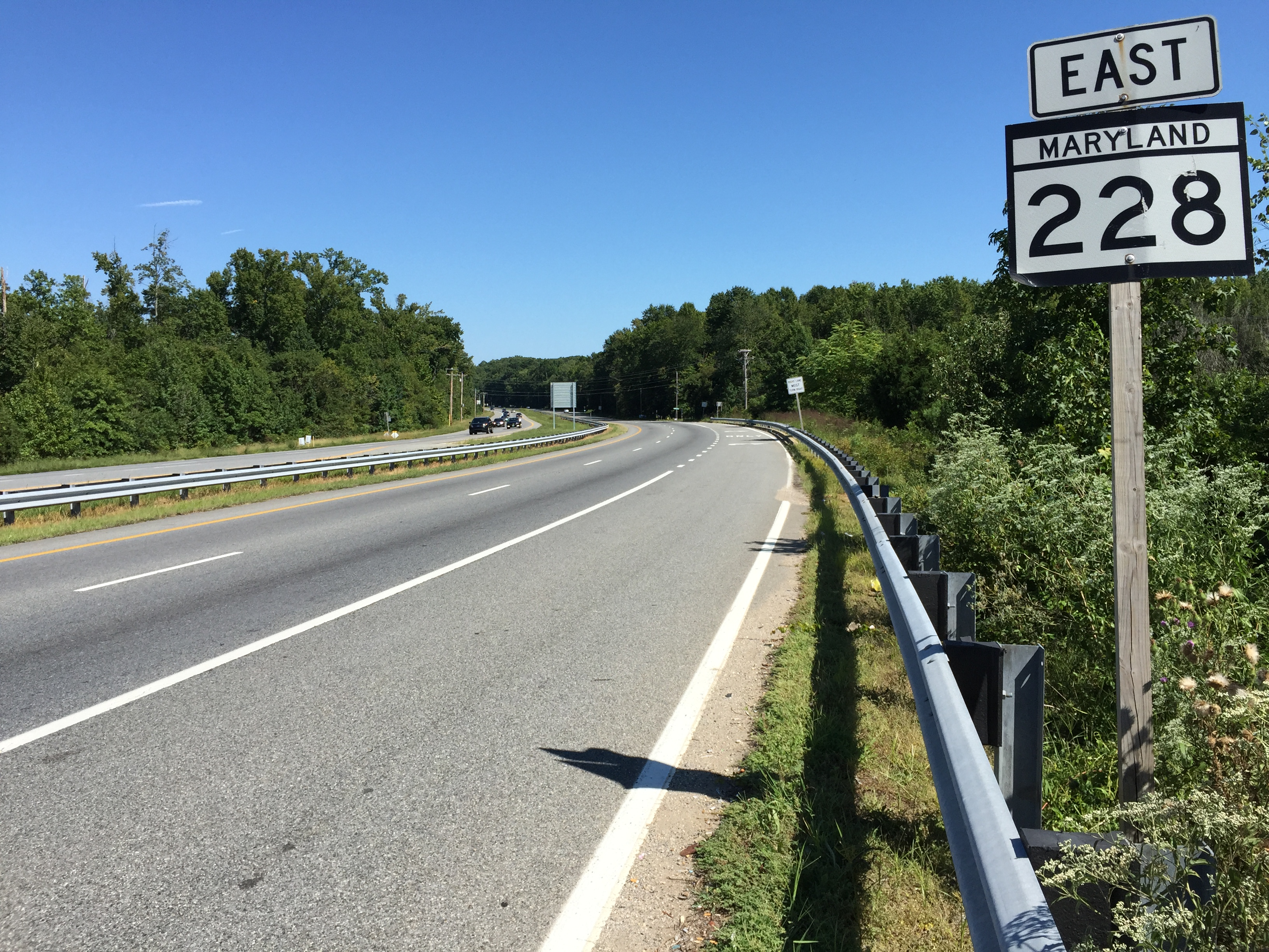 View east along Maryland State Route 228 (Berry Road) at Maryland State Route 229 (Bensville Road) in Bennsville, Charles County, Maryland